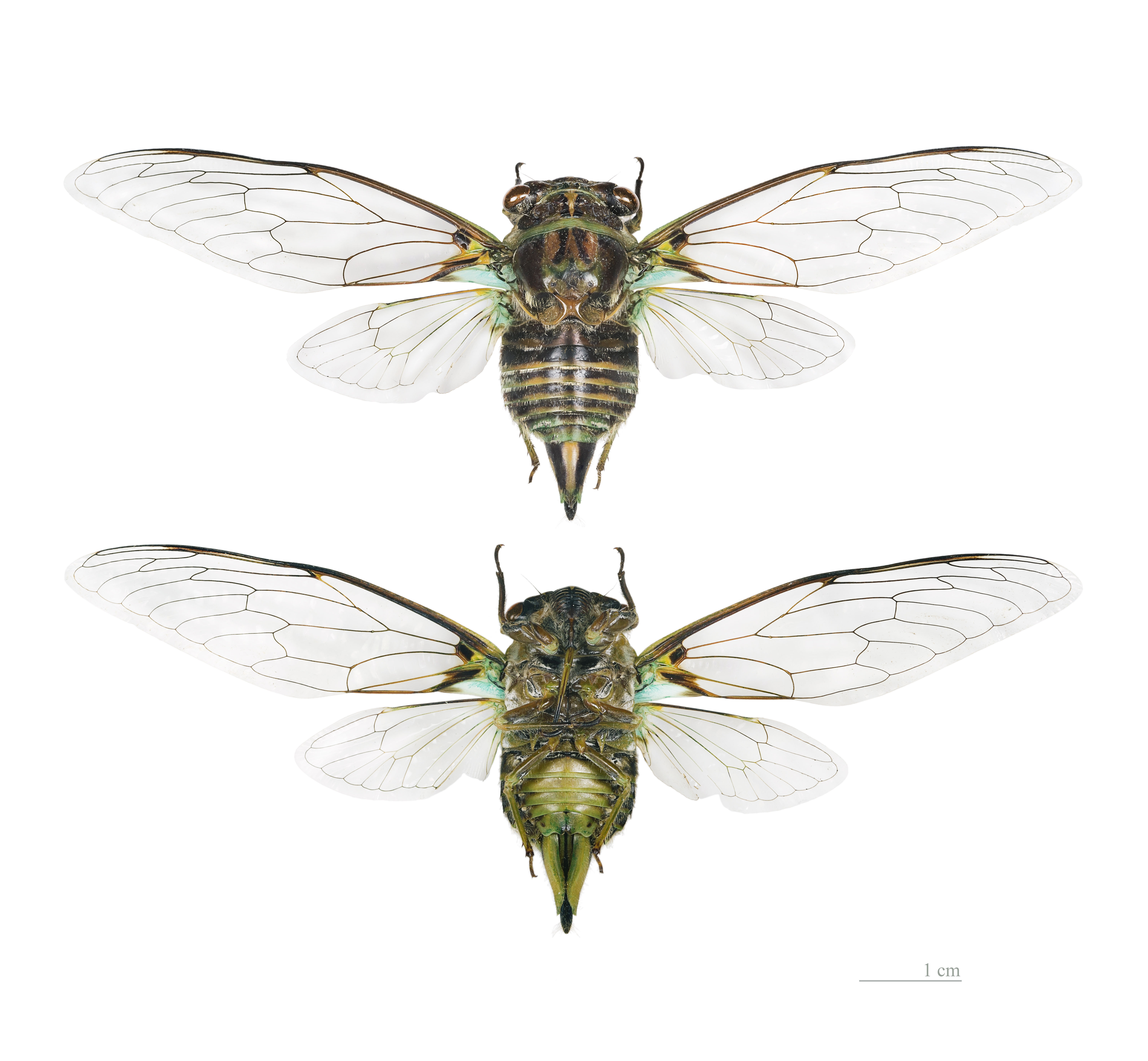 Ariasa colombiae - Two views of same specimen